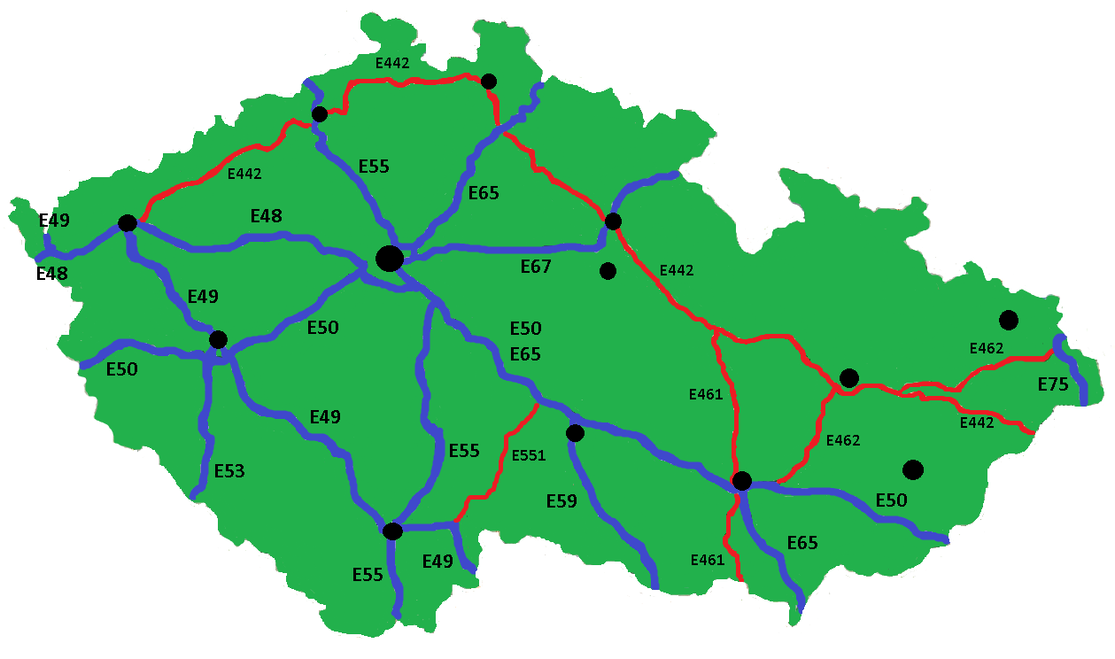 Map od all E-roads in Czechia.